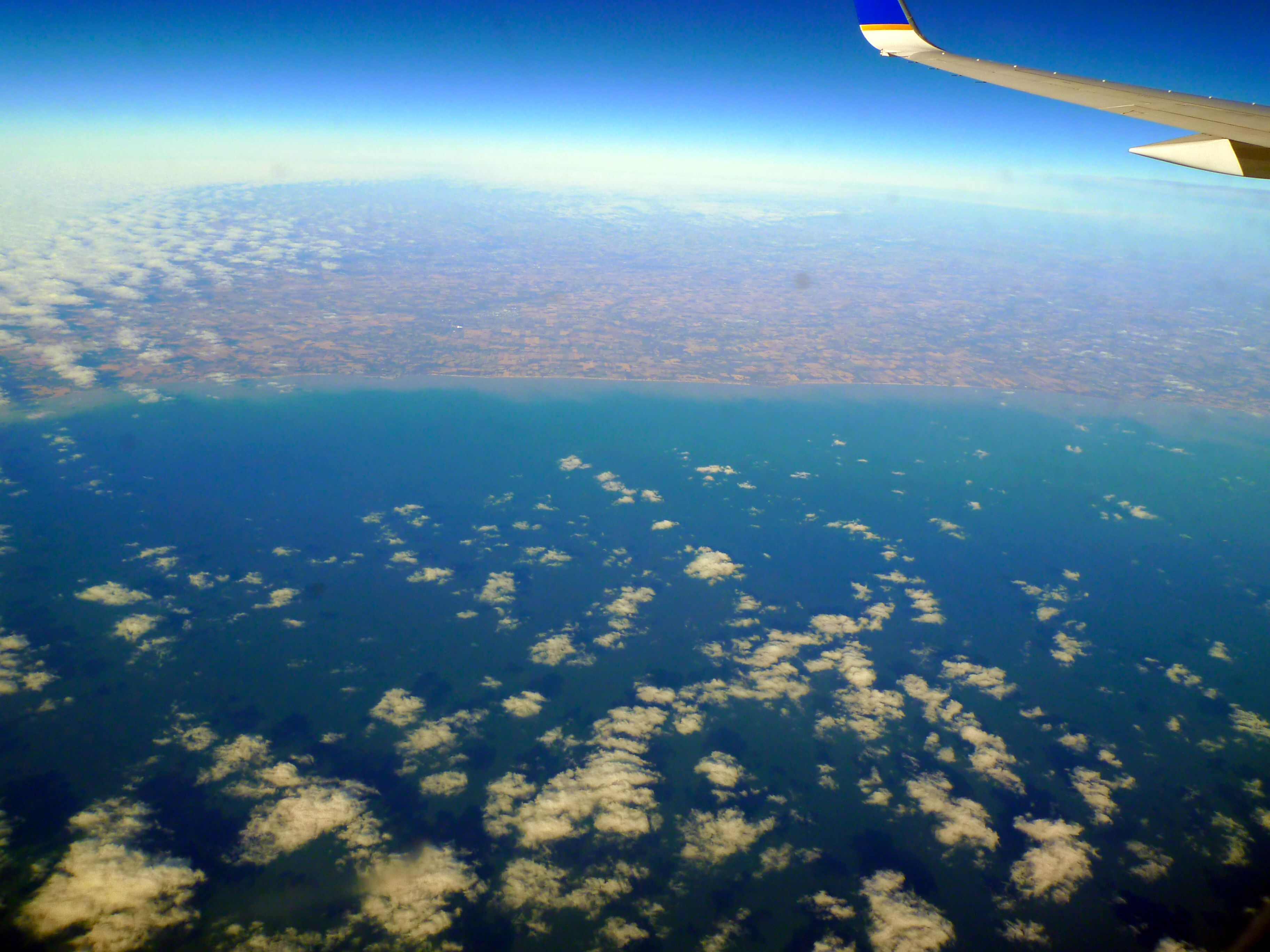 Lake Erie North Shore photo D Ramey Logan